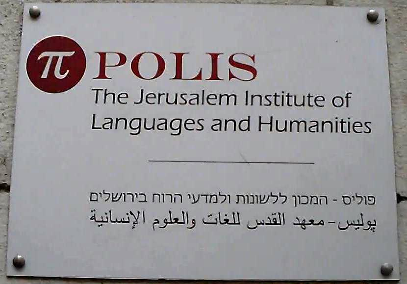 Photo of Polis' placard taken at the street